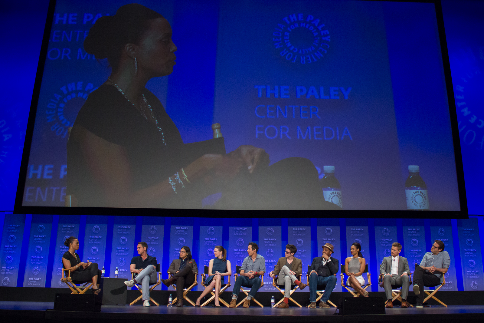 The cast & crew of "The Flash" at the PaleyFest 2015 presentation for the show. From left to right: Aisha Tyler (moderator), Greg Berlanti, Carlos Valdes, Danielle Panabaker, Tom Cavanagh, Grant Gustin, Jesse L. Martin, Candice Patton, Rick Cosnett and Andrew Kreisberg